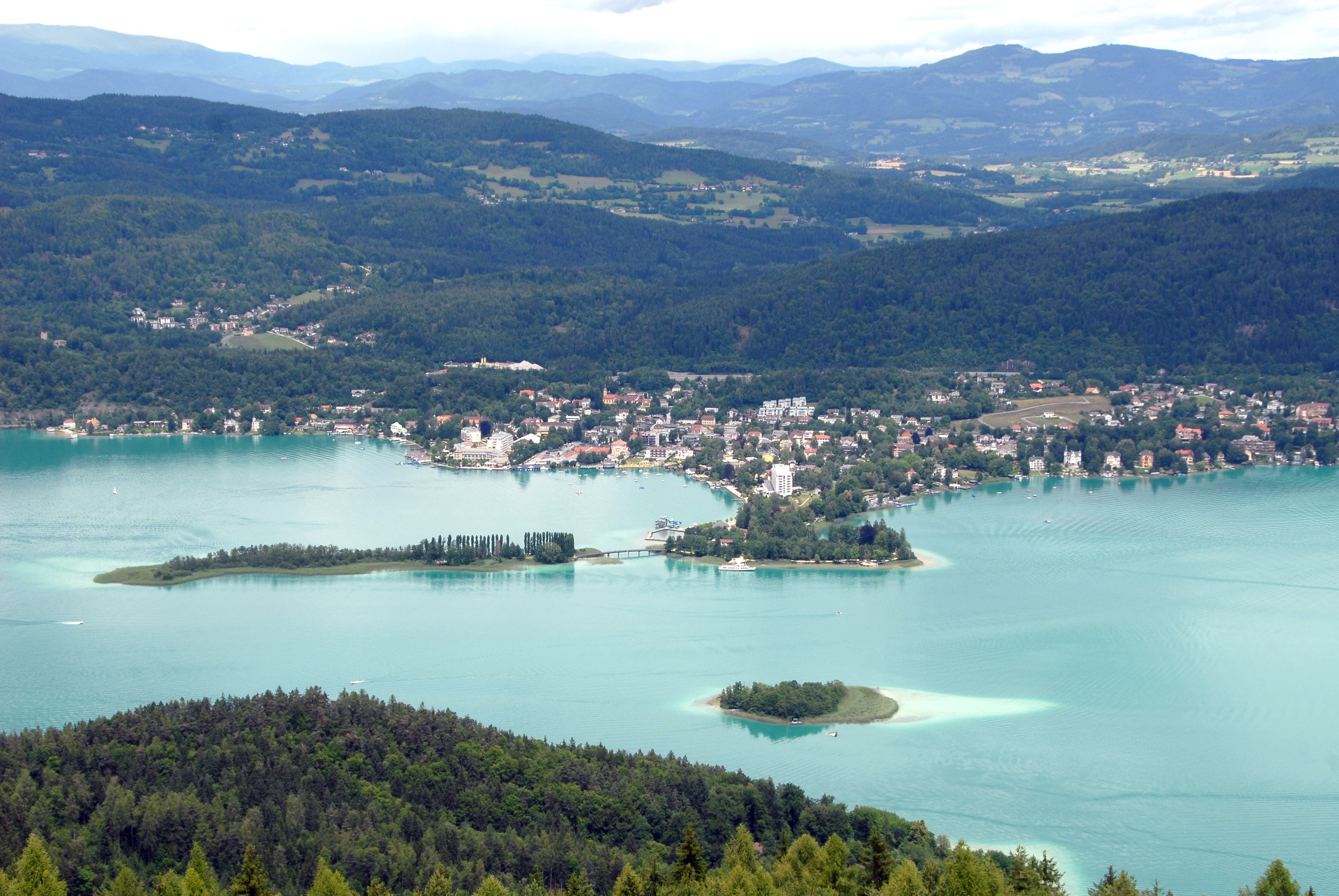 Poertschach on the Lake Woerth, Carinthia, Austria